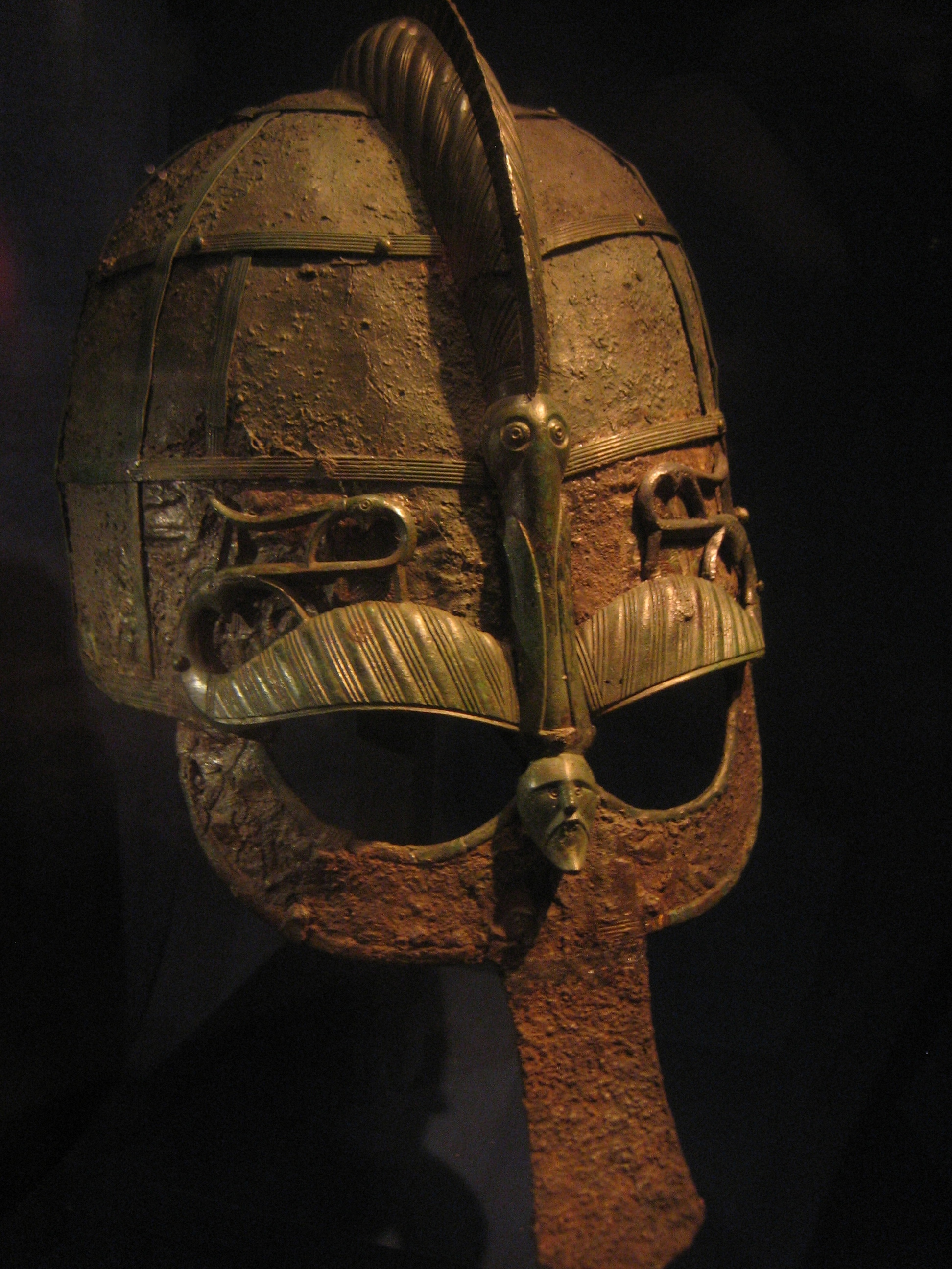 Iron helmet from Vendel era (550-793 AD) boat grave 1 in Vendel, Uppland, Sweden. Displayed at the Museum of History in Stockholm.